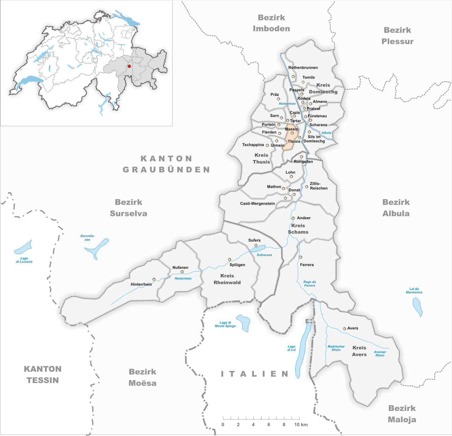 Municipality Masein